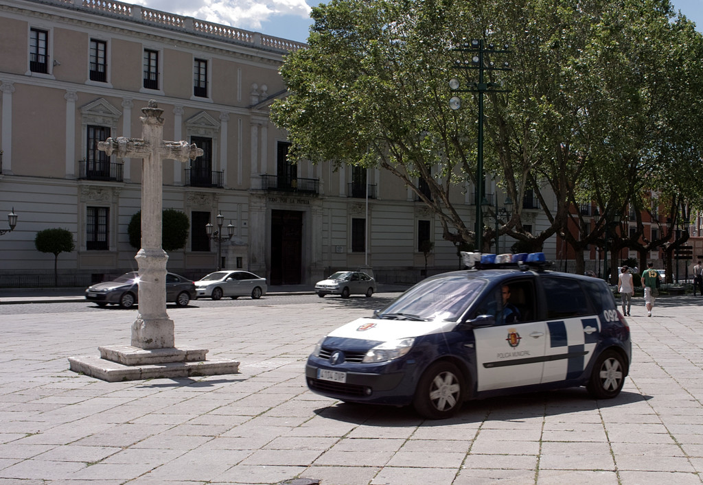 Valladolid Local Police patrol cruiser